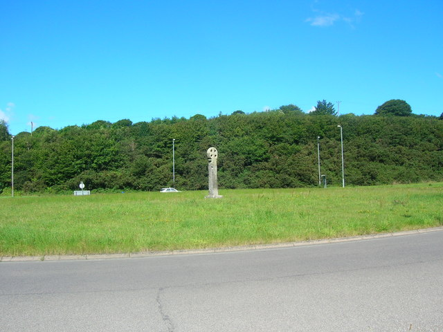 Carminow Cross A Cornish Cross stands in the centre of this large roundabout. The exit to Bodmin is upper right.